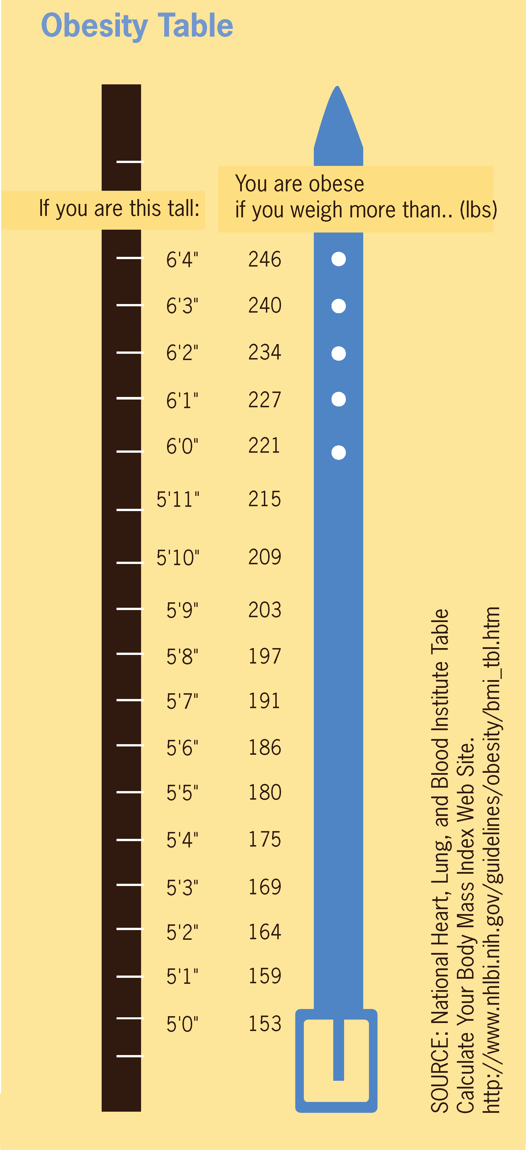 Obesity table